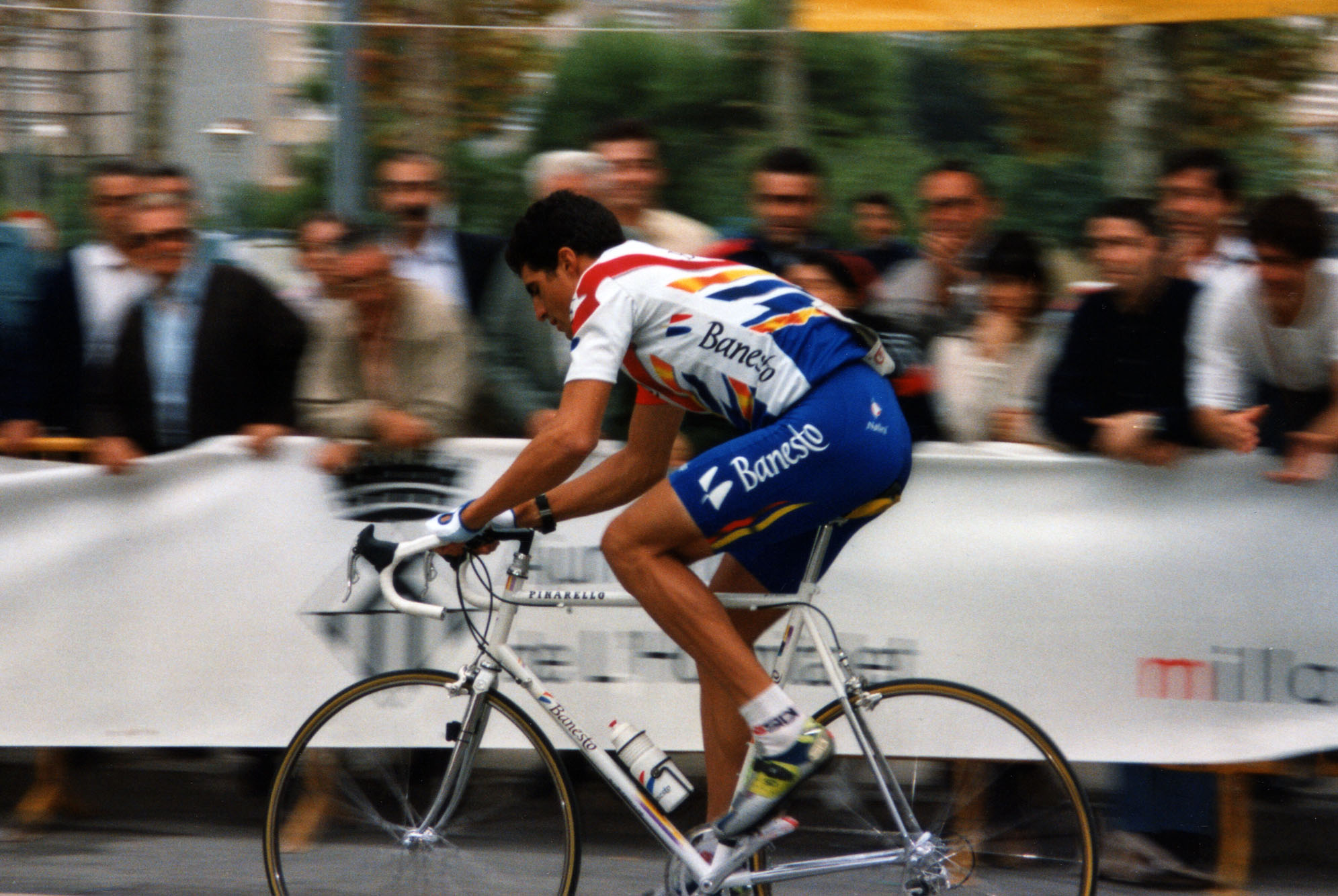 Cyclist Miguel Indurain during the XXI Criterium Ciutat de L'Hospitalet.